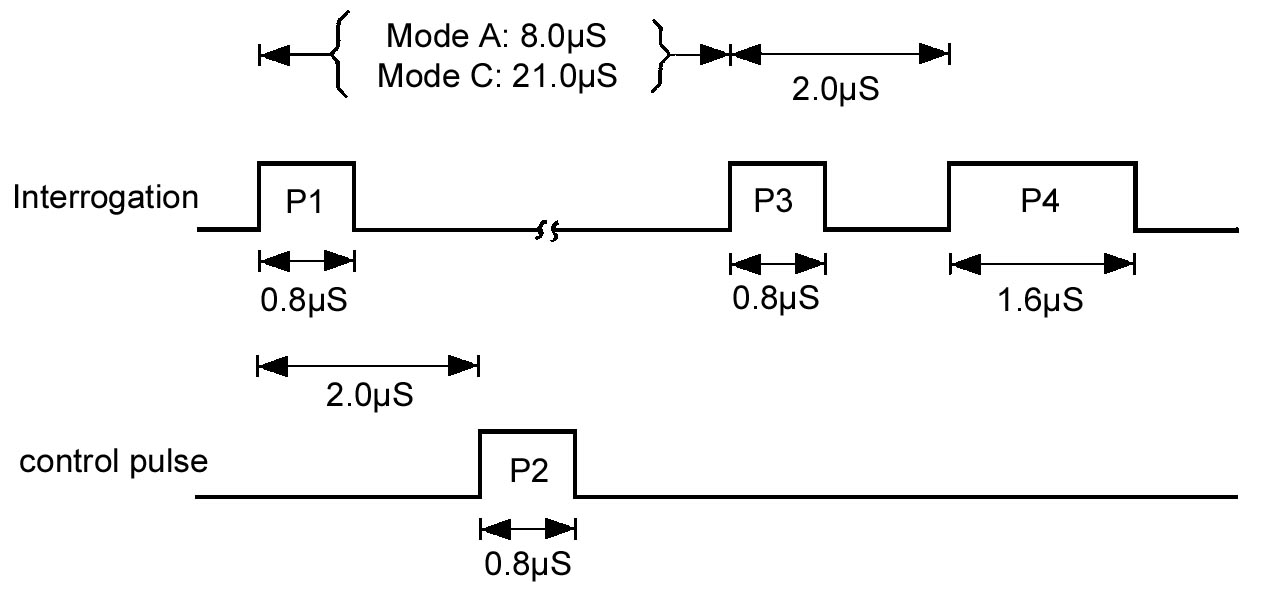 Commonly used industry standard diagram